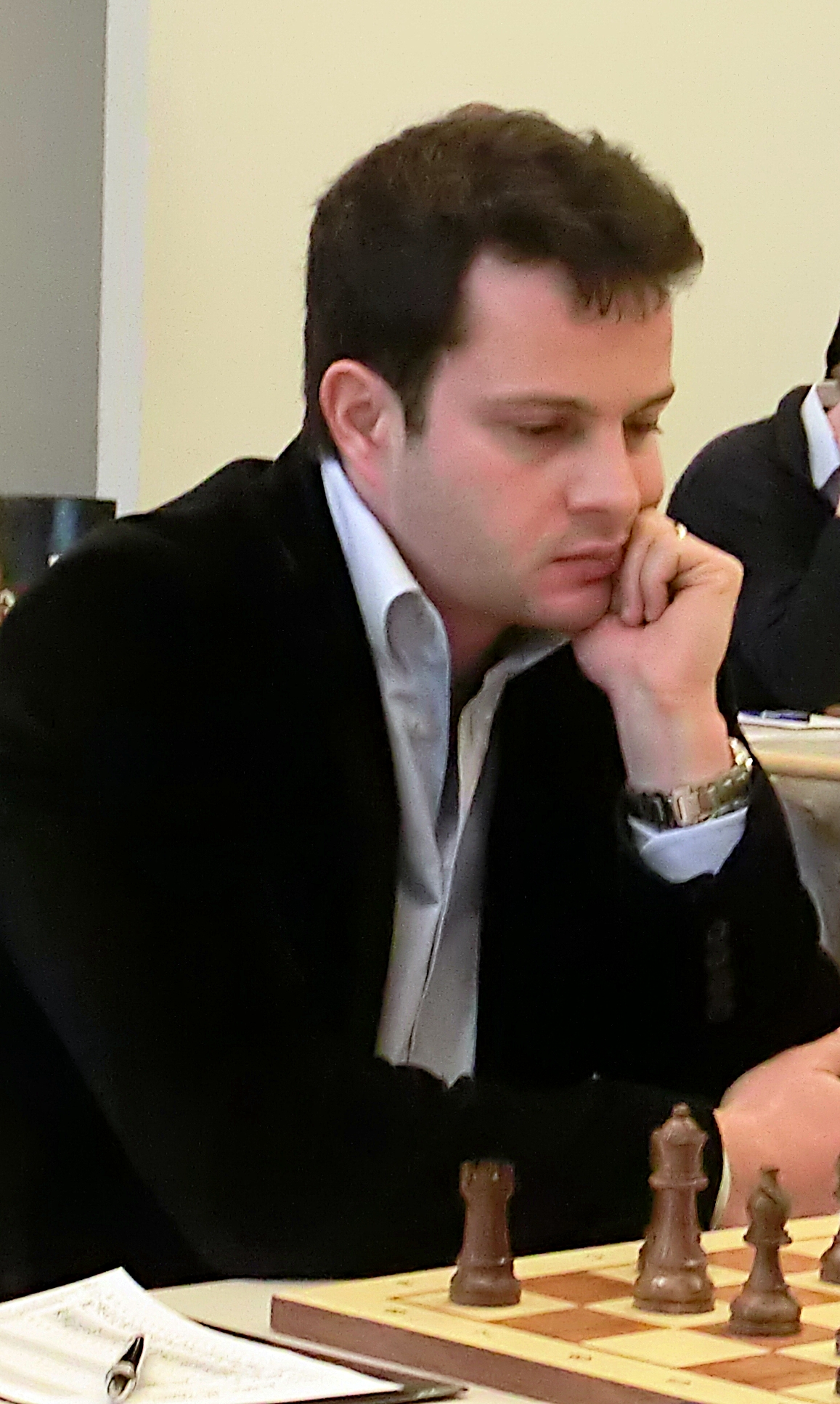 Étienne Bacrot, chess grandmaster from France